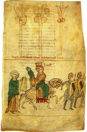 Empress Сonstance with her baby son Frederick - miniature from Peter Eboli'book